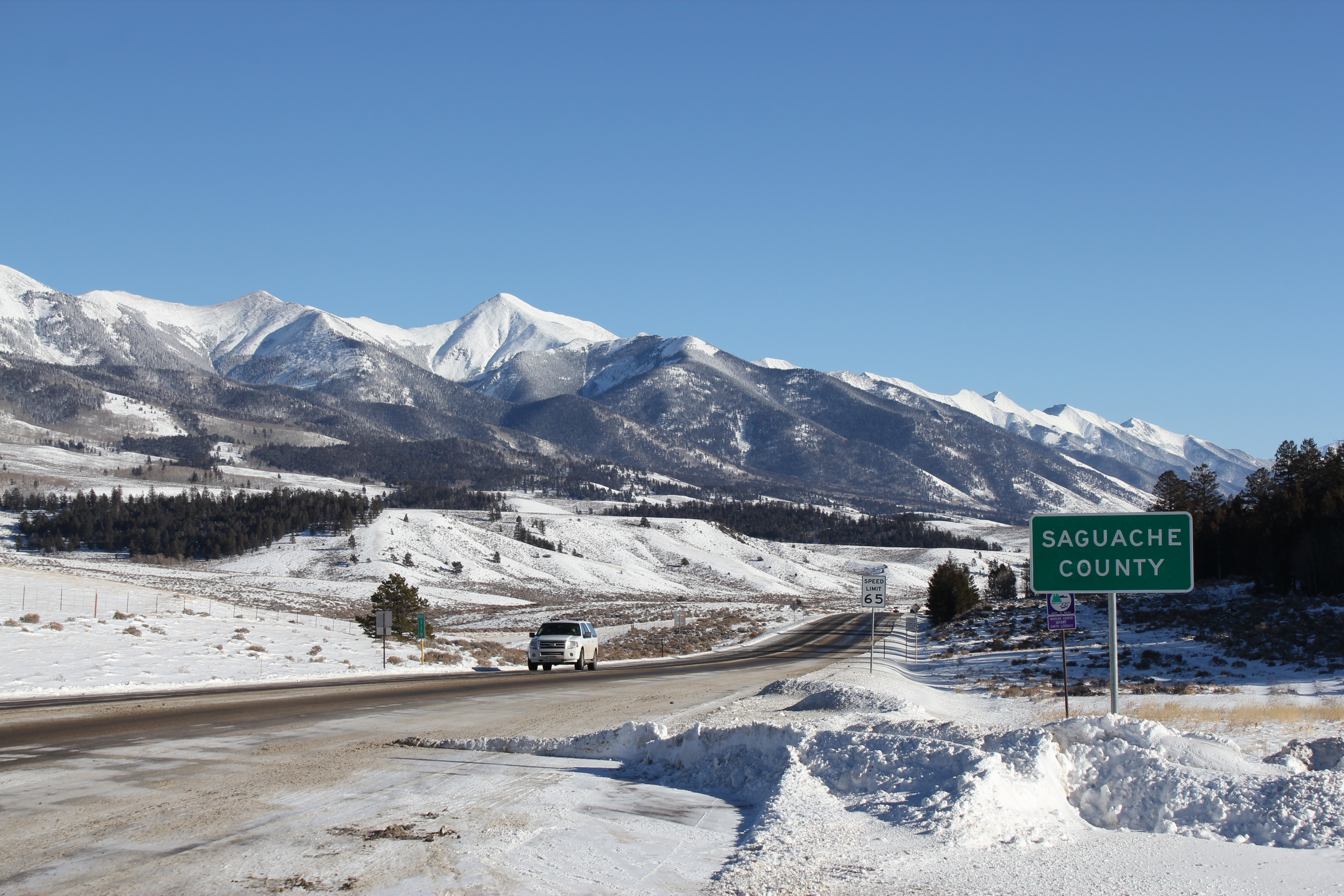 Saguache County, Colorado. The view is of U.S. 285 from the north. The mountains on the left are the Sangre de Cristo Mountains.